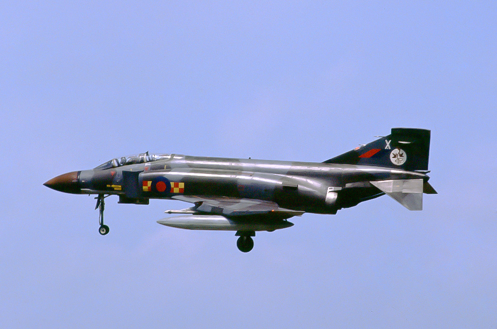 Phantom landing at RAF Wildenrath (Germany) in 1981